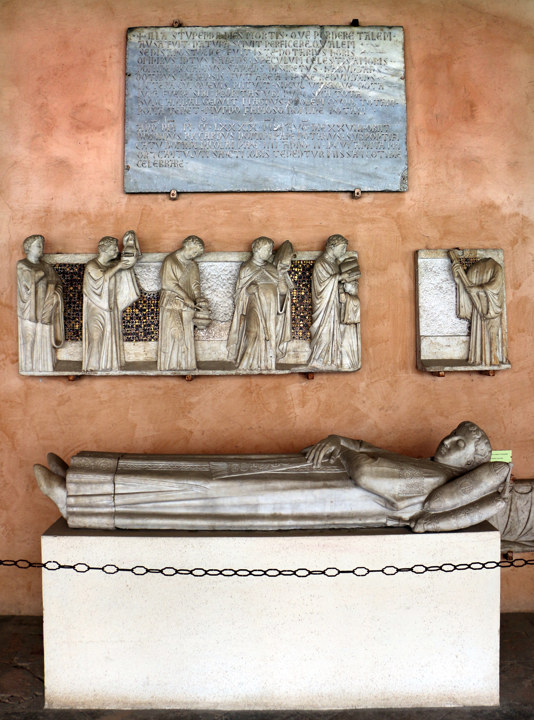 San Giovanni in Laterano (Rome) - Lapidarium